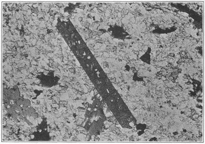 Figure caption: Antietam Schist. Porphyroblastic biotite, a, in a dolomitic matrix. The tourmaline, t, is epigenetic. Text from the Bulletin referring to this figure: Microscopically the rock shows abundant calcite, dolomite, and biotite; some of the biotite occurs as porphyroblastic blades with inclusions of the groundmass. Quartz, albite, titanite, and pyrite are present in small amounts. Tourmaline crystals which contain inclusions of the rock minerals show that the mineral was formed as a result of pneumatolytic action subsequent to recrystallization of the rock.